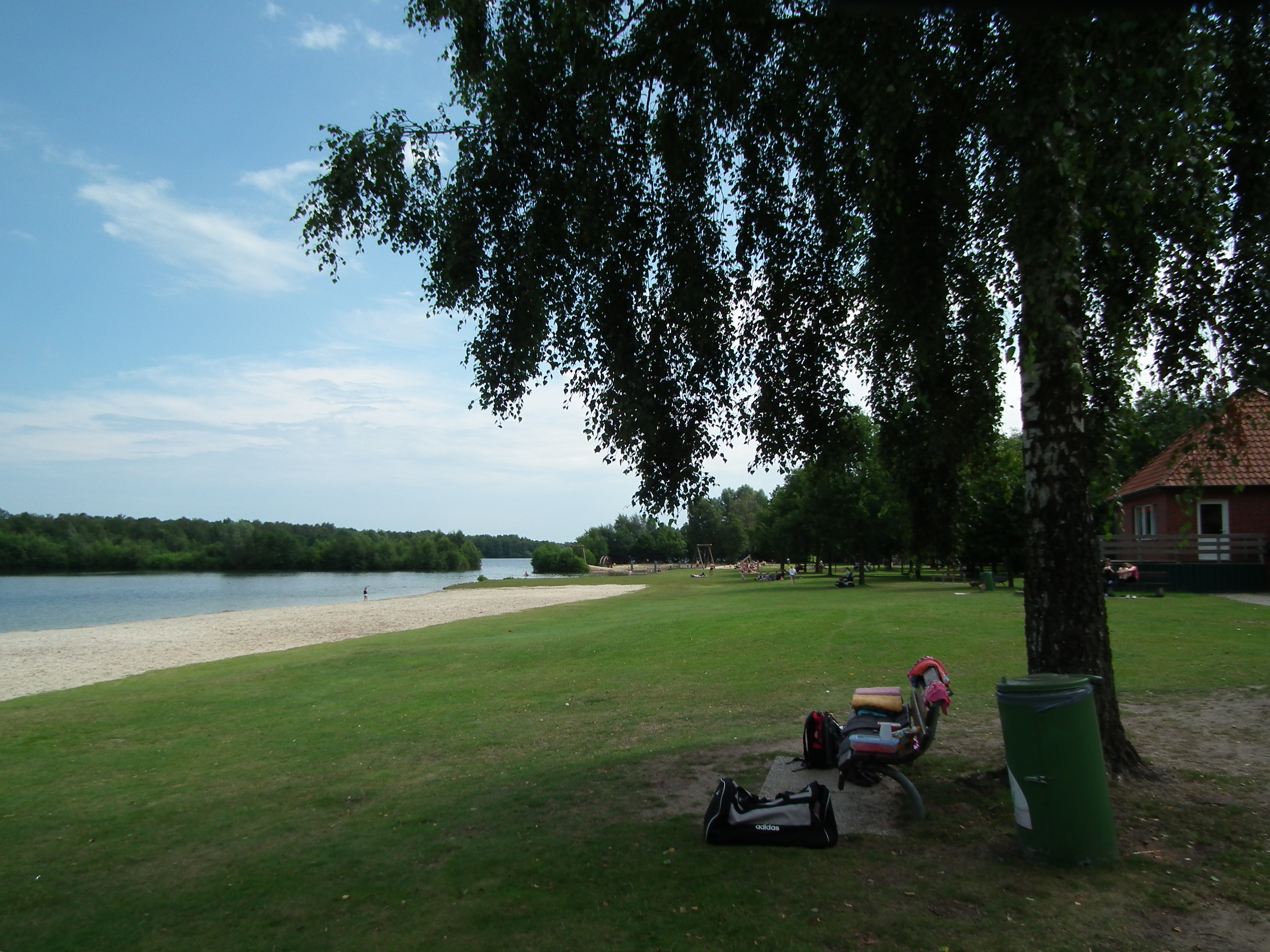 View on the beach of the Drilandsee.